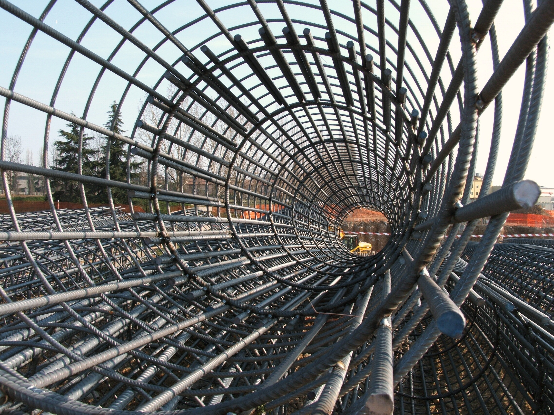 Rebar (for reinforced concrete)